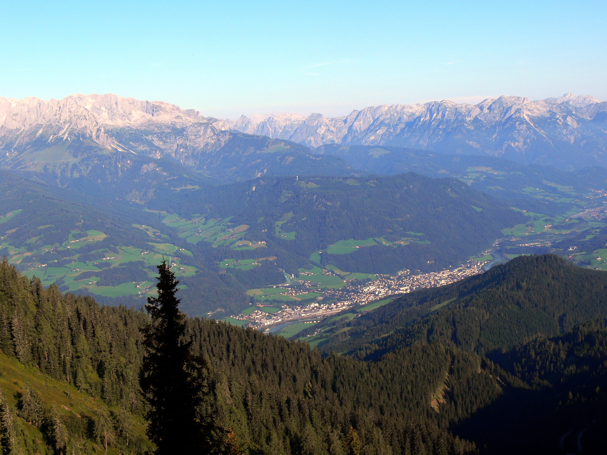 View from Heinrich-Kiener-Hütte to Bischofshofen ( Salzburg ).